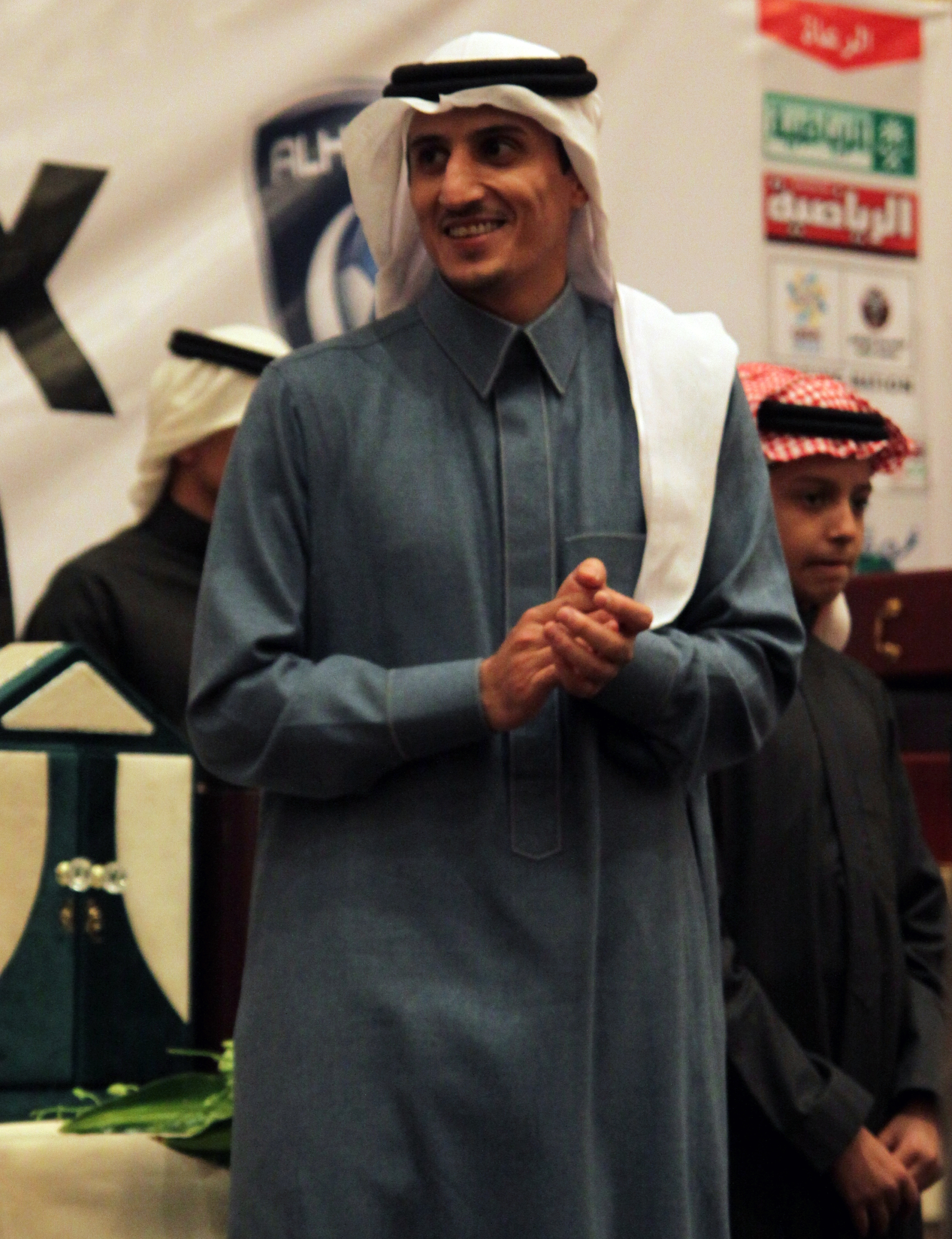 Nawaf Al-Temyat is a retired Saudi Arabian football (soccer) player.